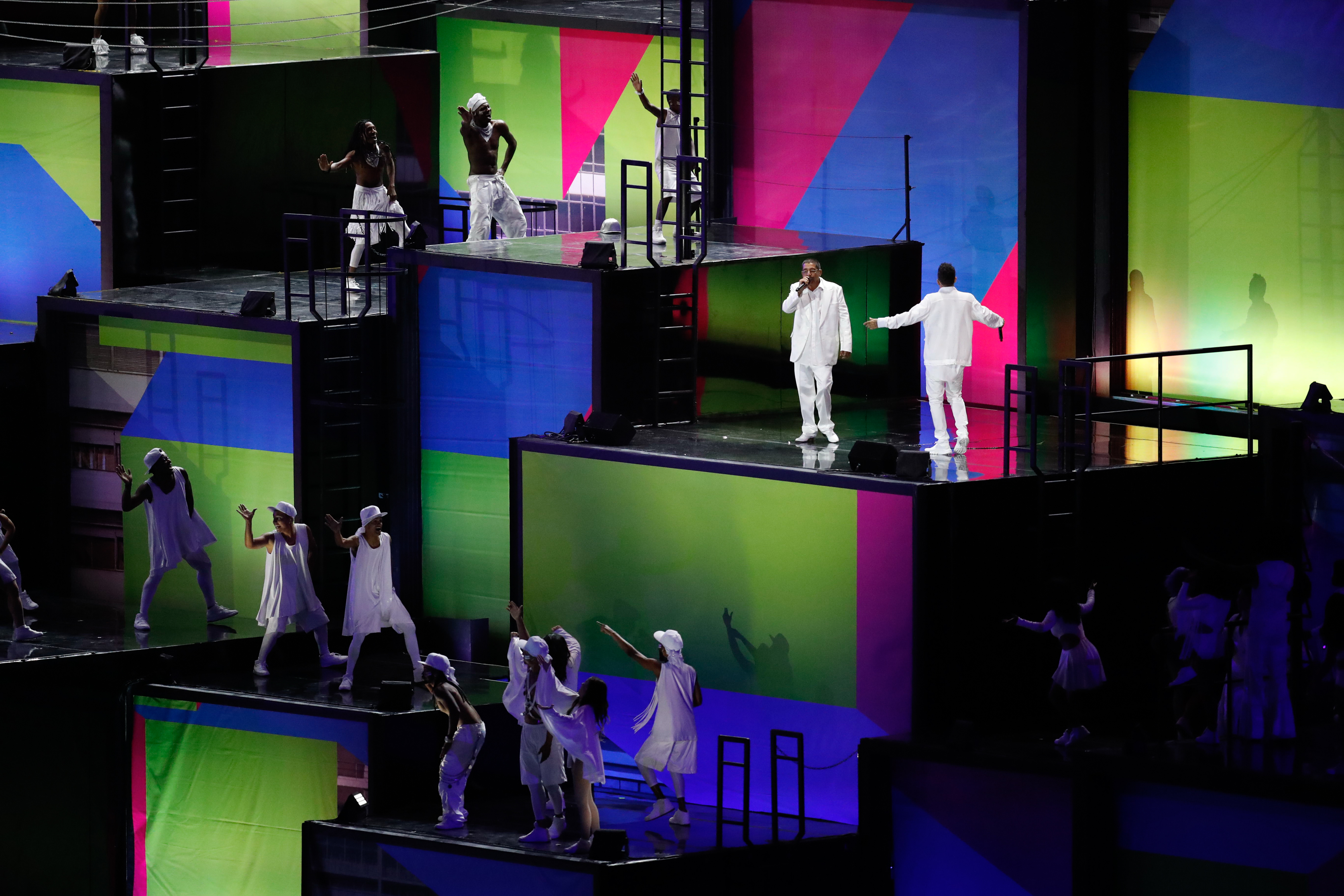 Rio de Janeiro - Cerimônia de abertura dos Jogos Olímpicos Rio 2016 no Estádio do Maracanã. (Fernando Frazão/Agência Brasil)